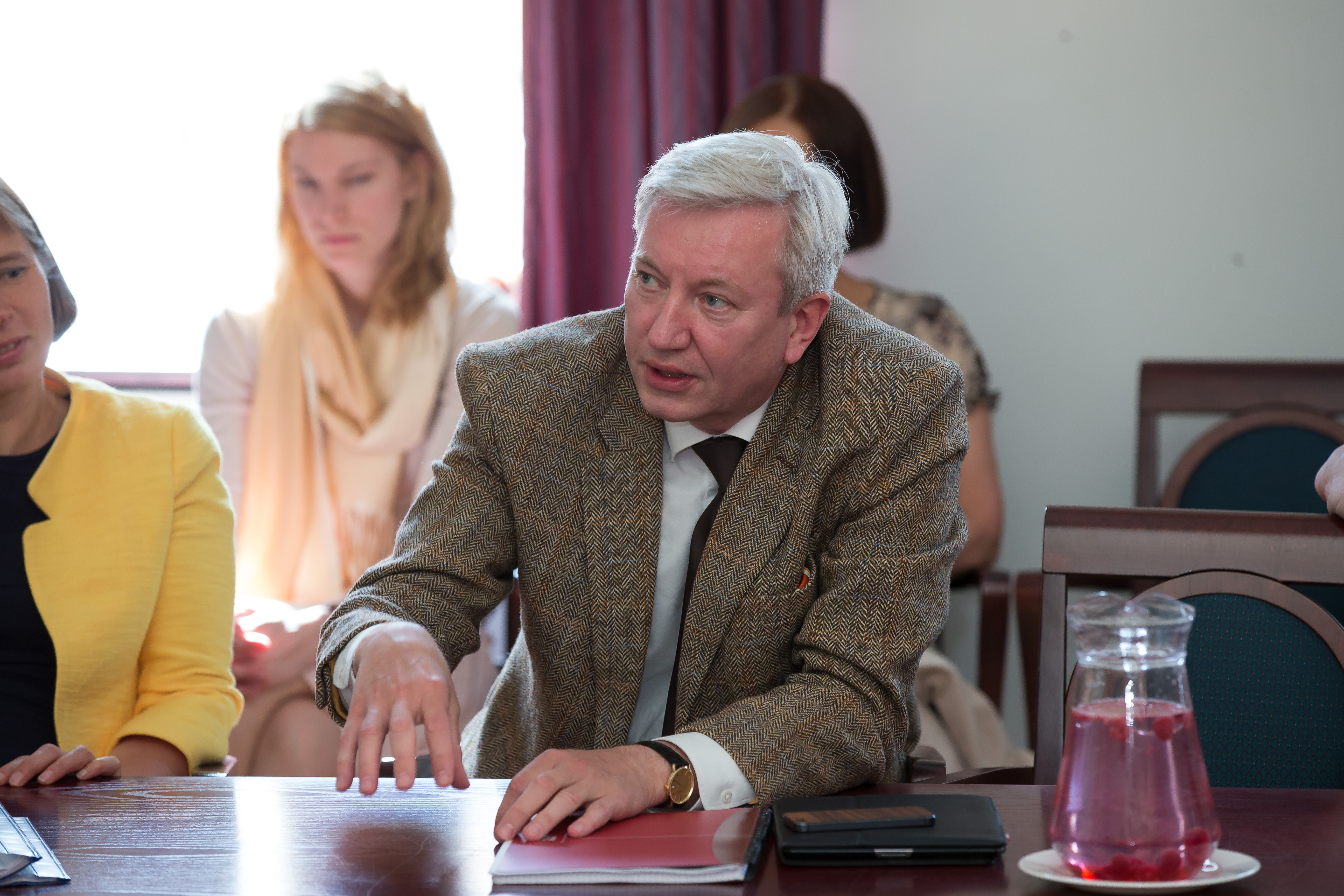 Council of the University of Tartu seminar "Risk management and developing of entrepreneurship inside the university". Vahur Kraft.